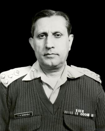 Brigadier Tafazzul Hussain Siddiqui (licence)